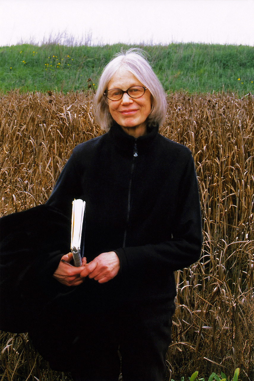 Environmental artist Patricia Johanson, photographed by Scott Hess.